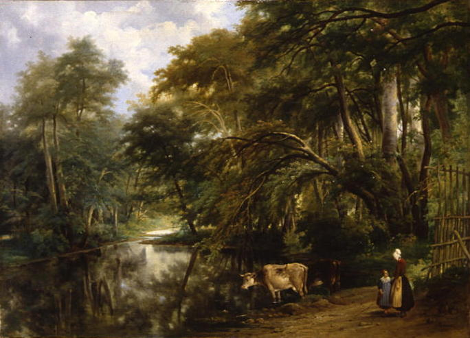 Charles-Caïus Renoux, Vue de la cavée Saint-Martin, près de la forêt de Compiègne (1833, Musée de Soisson)s